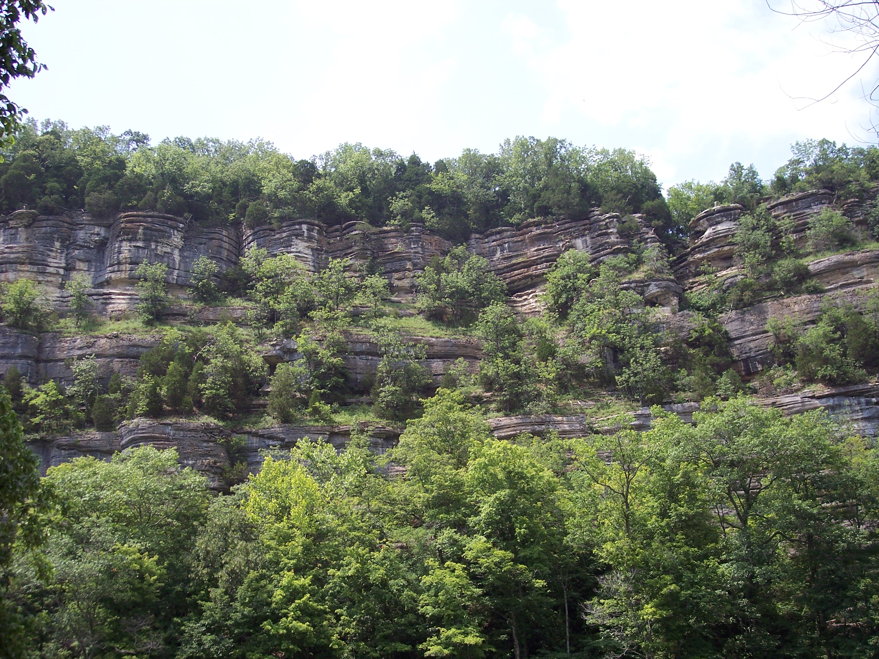 Vantage point from Tom Dorman State Nature Preserve. Garrard County looking into Jessamine County, Kentucky.